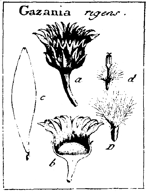 Illustration of Gazania rigens from "De Fructibus et Seminibus Plantarum" by Joseph Gaertner. (Table CLXXIII)